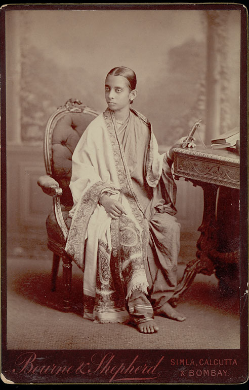 Portrait of Hindu woman from Bombay in costume with cashmere shawl.